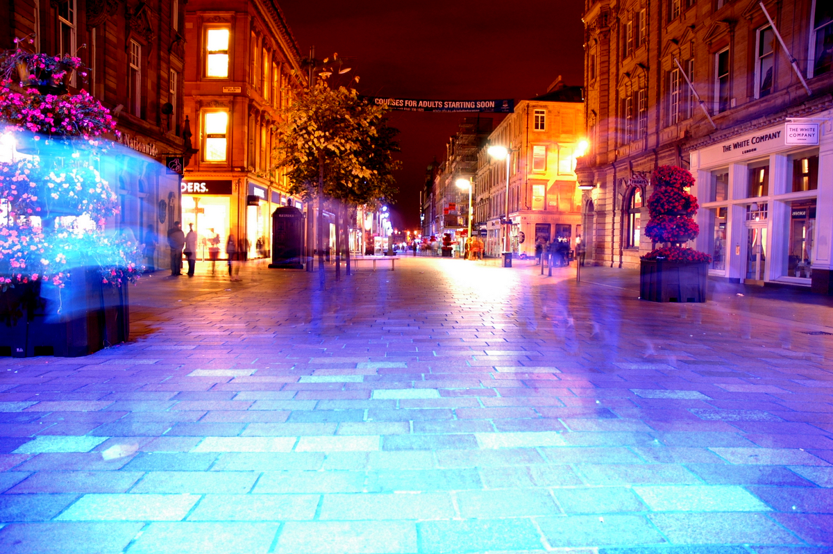 Image of Buchanan Street (Glasgow) at night.